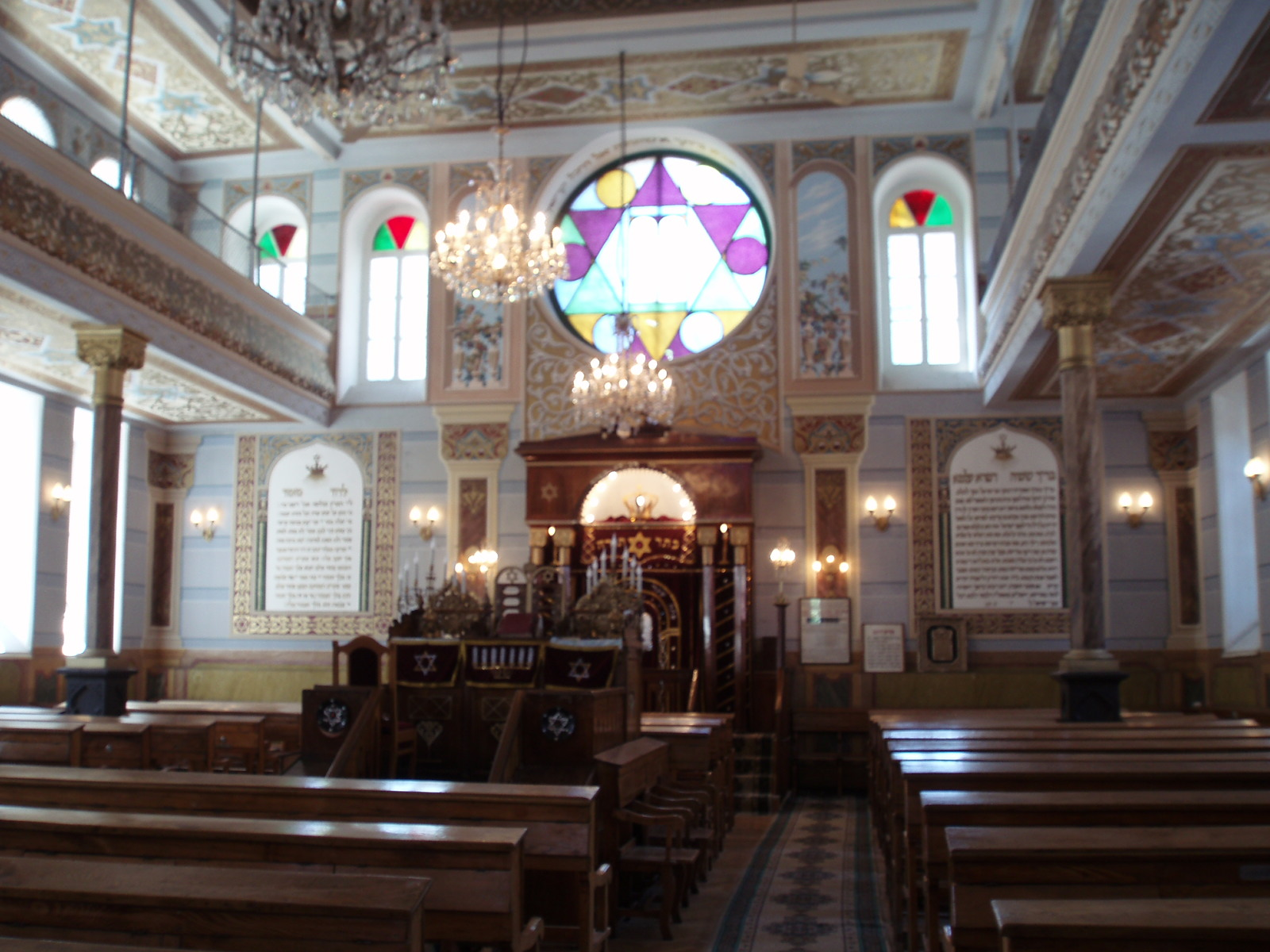 The Synagogue in Tbilisi Georgia